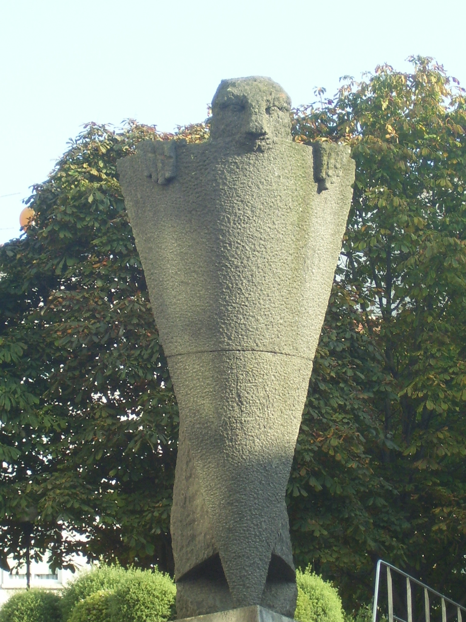 Sculpture of a warrior by Francisco Leiro Lois in public square in Ferrol